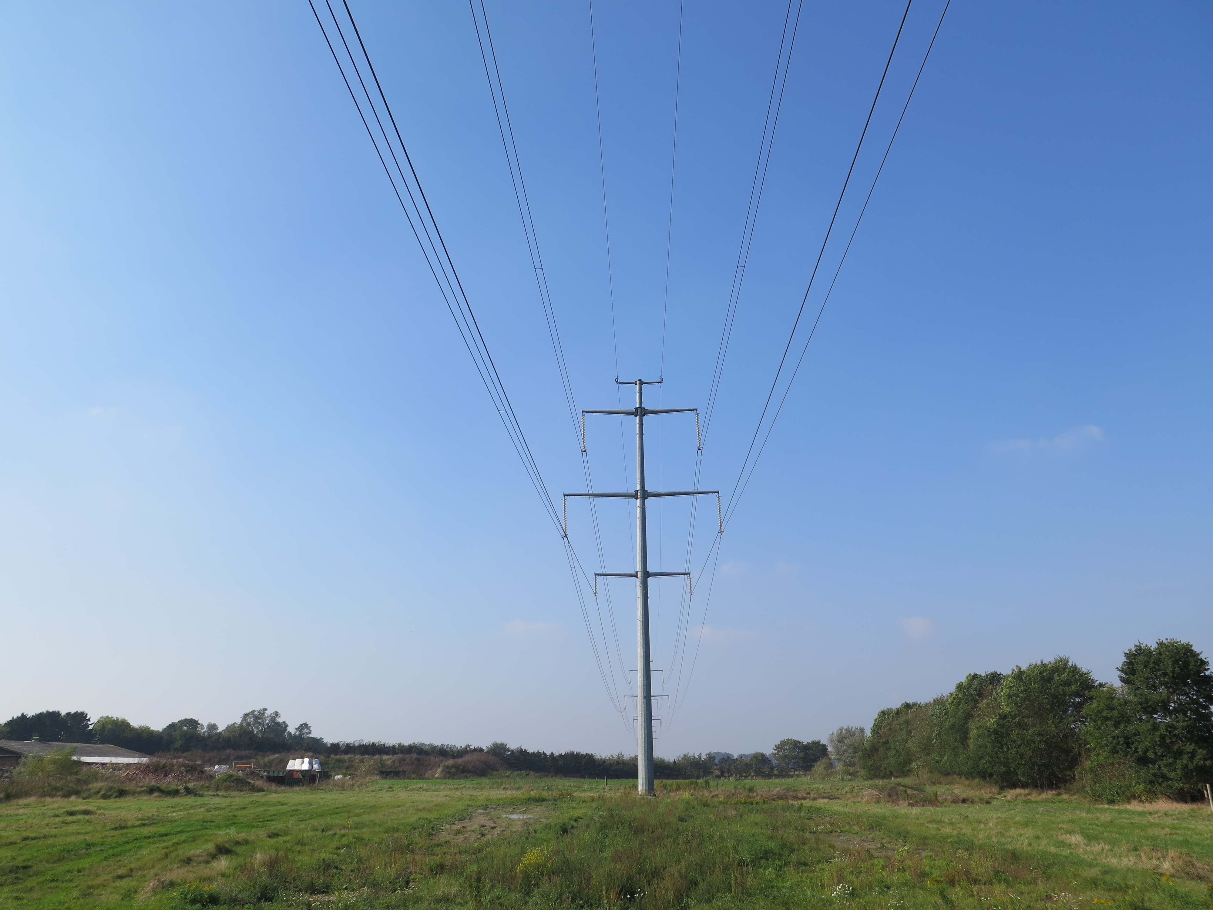 Row of suspension pylons of two single-circuit 400/132 kV power lines east of Hovegård substation, seen from Edelgavevej, Egedal Municipality, Denmark